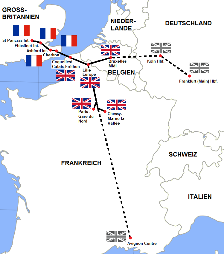 Places of juxtaposed controls at cross-Channel fixed link in the United Kingdom, France and Belgium